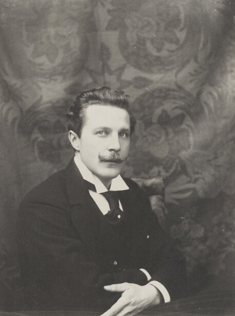 Harry Cust by Cyril Flower, 1st Baron Battersea platinum print, 1890s 7 7/8in. x 5 7/8in. (200 mm x 148 mm)